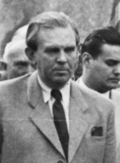 Ernő Mihályfi in 1948